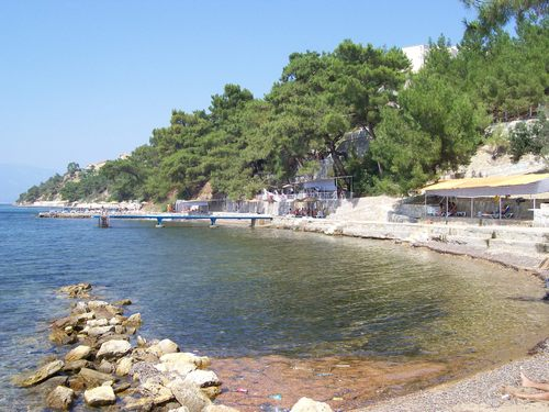 pelitköy beach